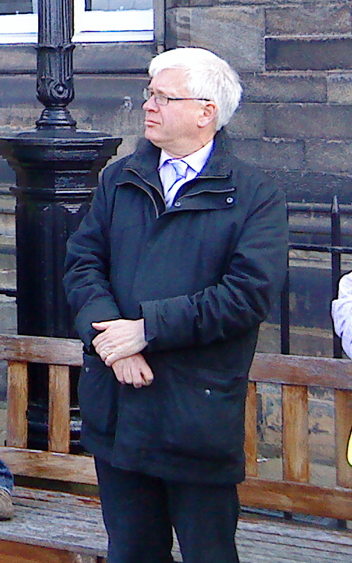 Mark Lazarowicz, Labour MP for Edinburgh North and Leith.